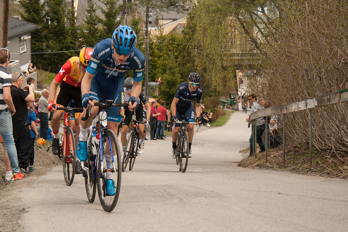 Riders climbing Riperbakken at Ringerike Grand Prix 2018.